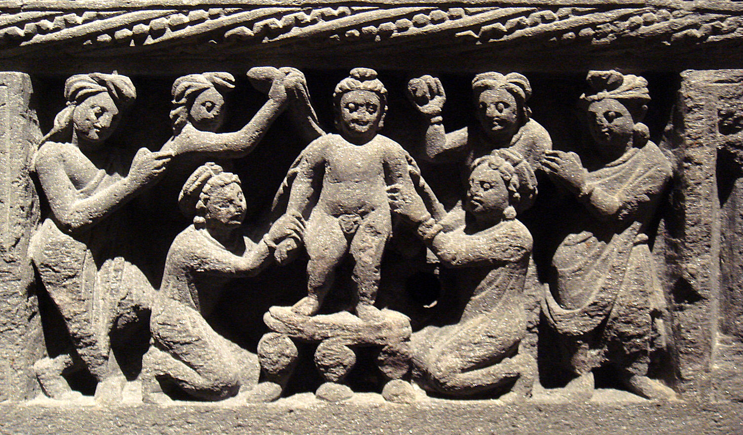 Infant Buddha Taking A Bath Gandhara 2nd Century CE